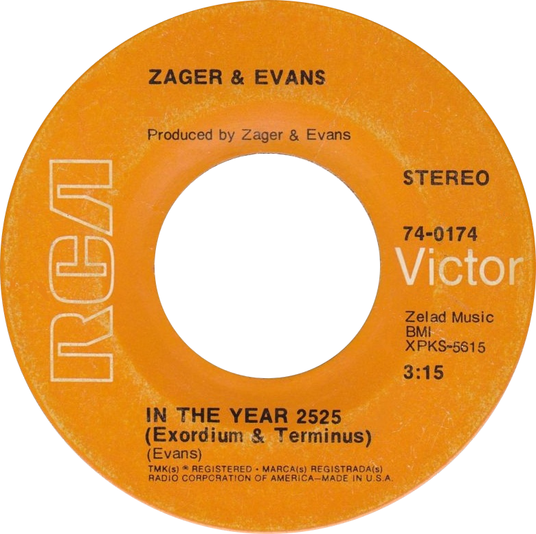 Side-A label of the US 7-inch vinyl single "In the Year 2525 (Exordium & Terminus)" by Zager & Evans, release by RCA Records. The song was originally released by Truth Records.